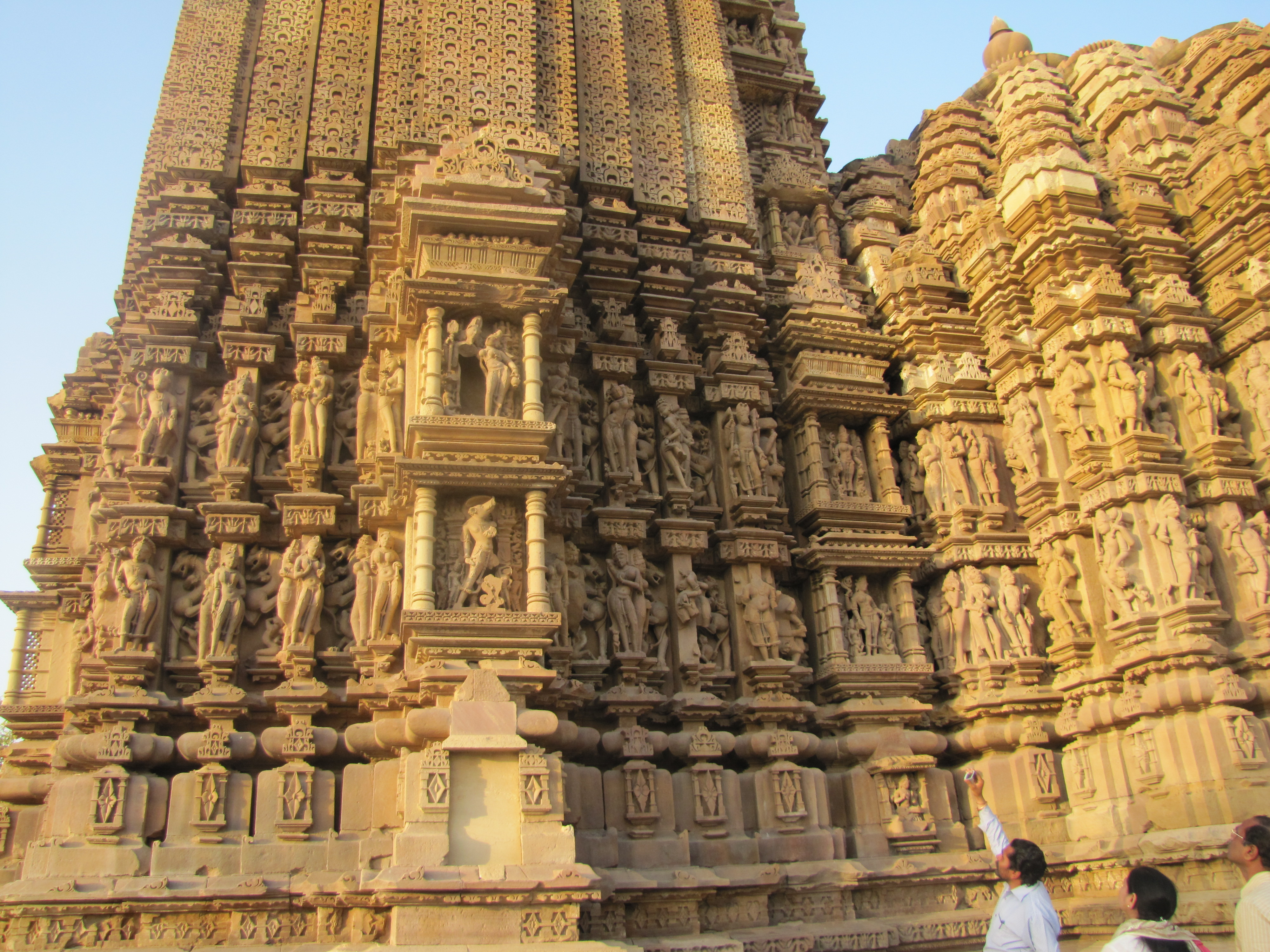 Khajuraho India, Vamana Temple, Outer Wall Sculptures